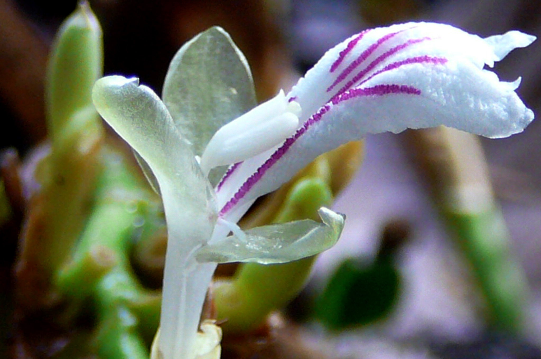 Cardamom Flower